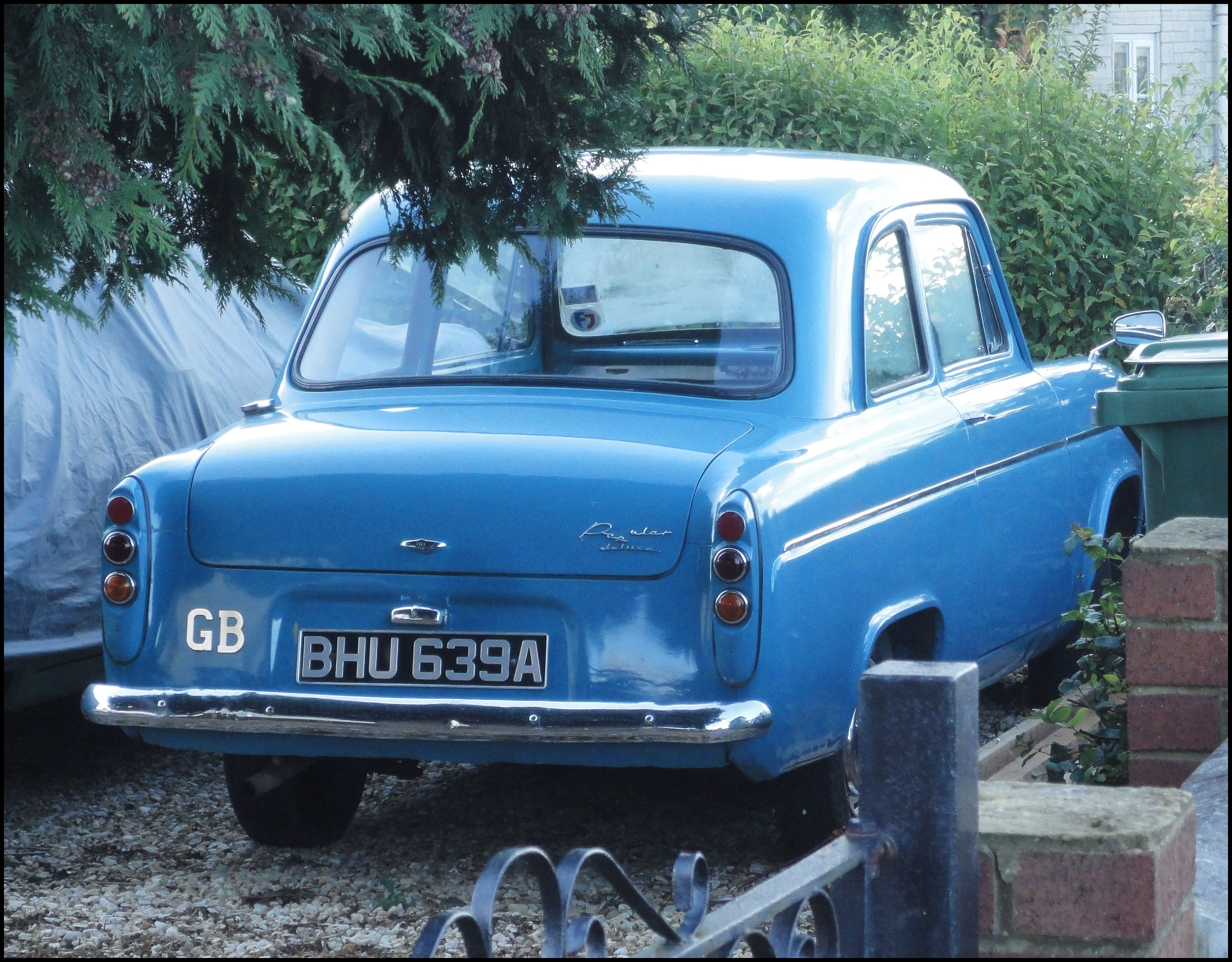 Ford Popular 100E - Stonehouse, Gloucestershire ... Popular.